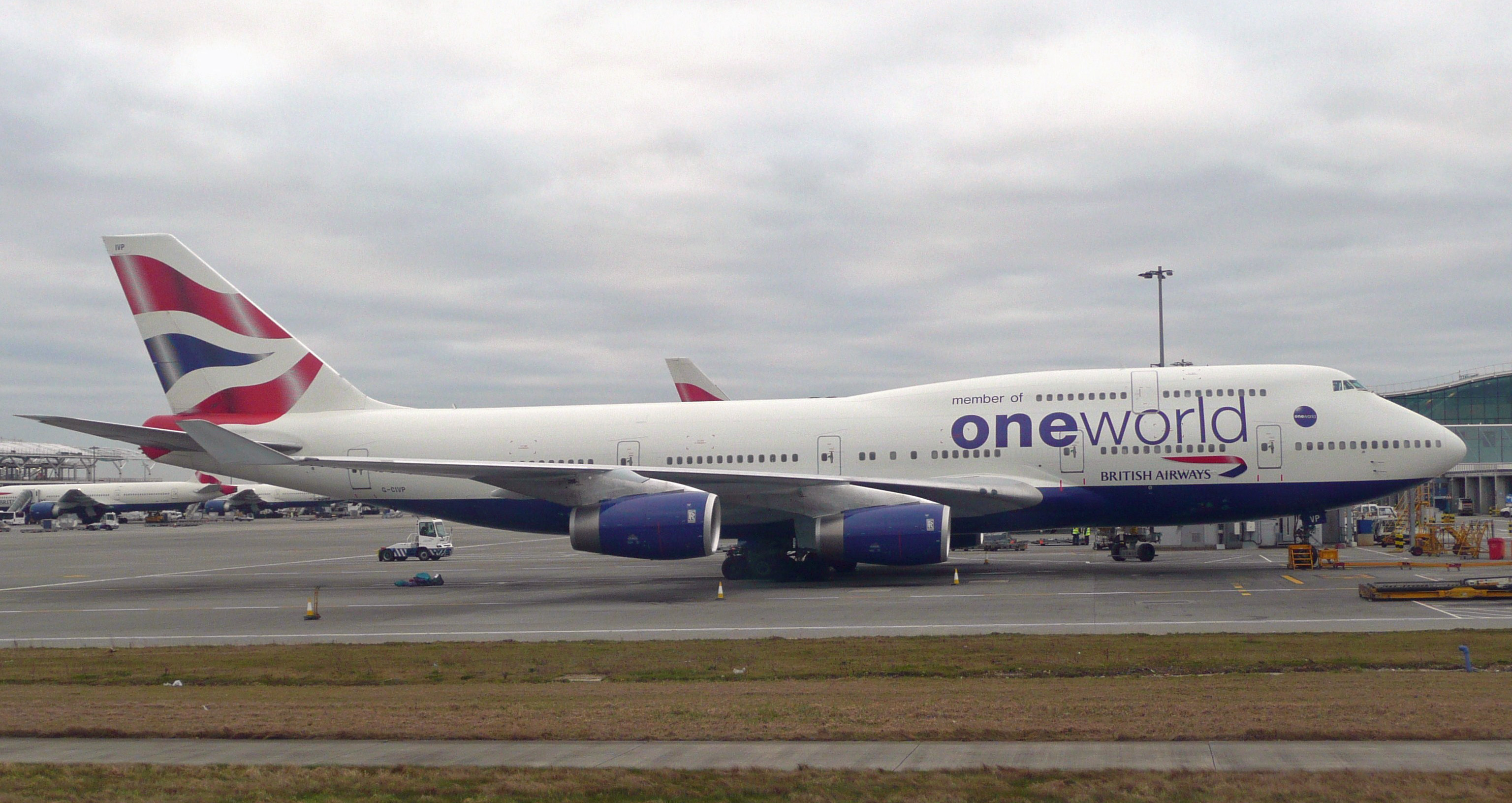 Photograph of British Airways' Boeing 747-400 (Registration: G-CIVP), with special oneworld livery, taken from inside another British Airways aircraft at London Heathrow Airport, London, United Kingdom 中文（香港）: 英國航空塗上特別寰宇一家塗裝的波音747-400 (註冊編號: G-CIVP) 在倫敦希斯路機場